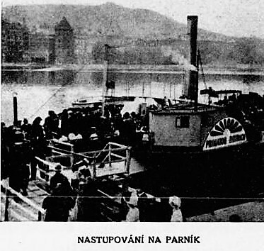 Steamer Primator Dittrich, Prague, 1915